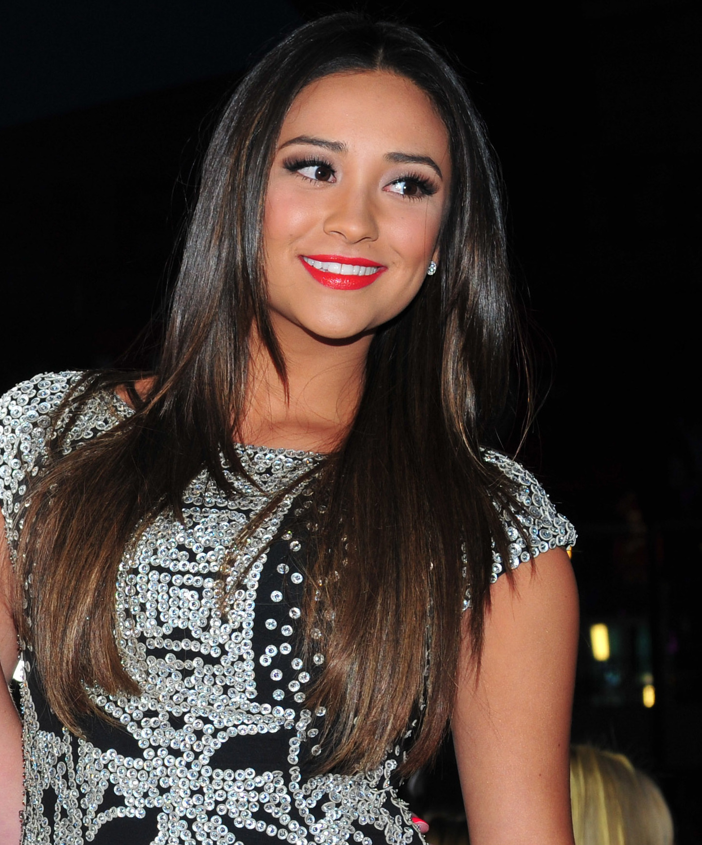 Shay Mitchell at the 38th People's Choice Awards, Red Carpet 2012.